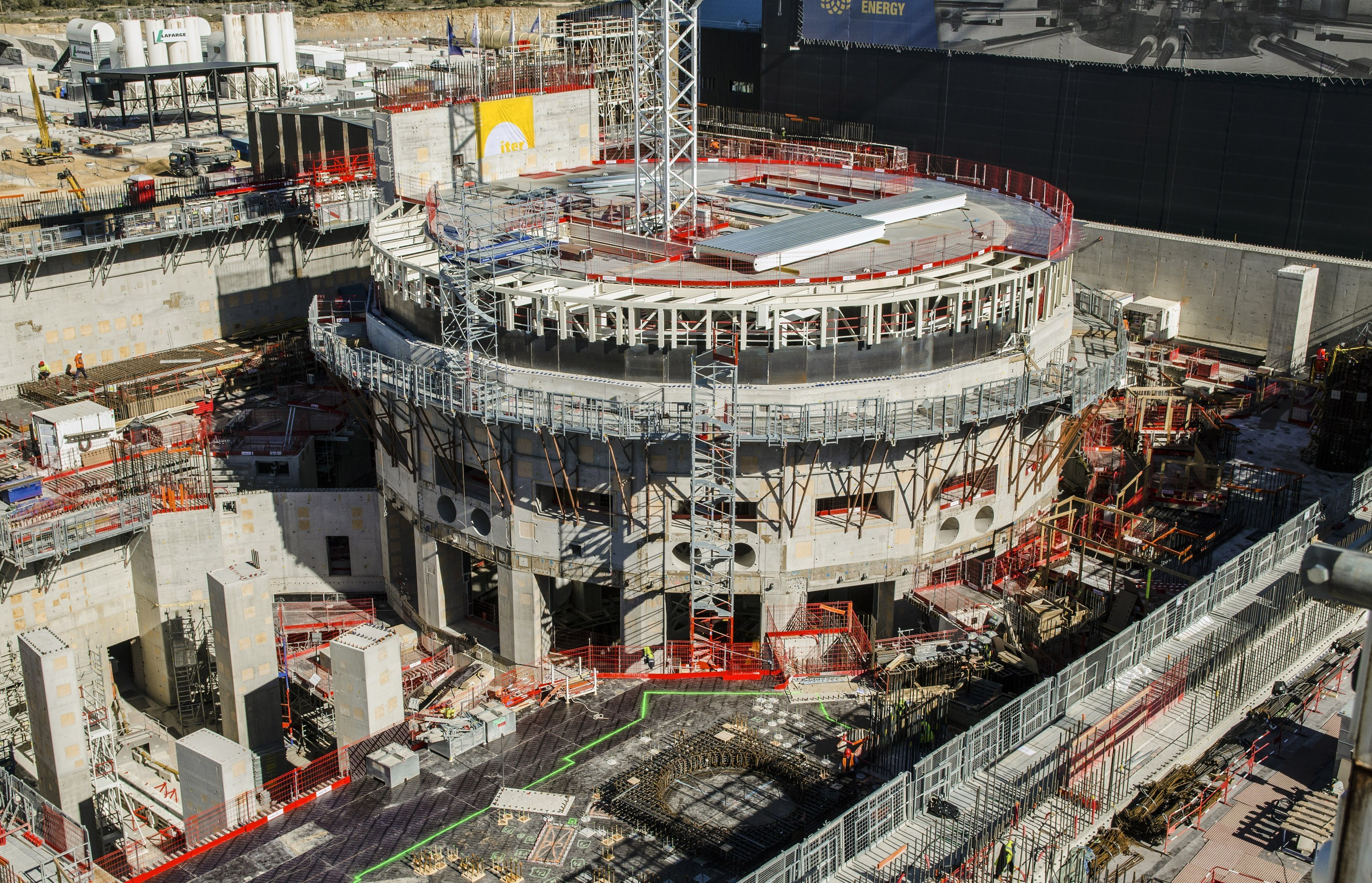 The tokamak complex during construction in April 2018. Outside view of the central tokamak complex.